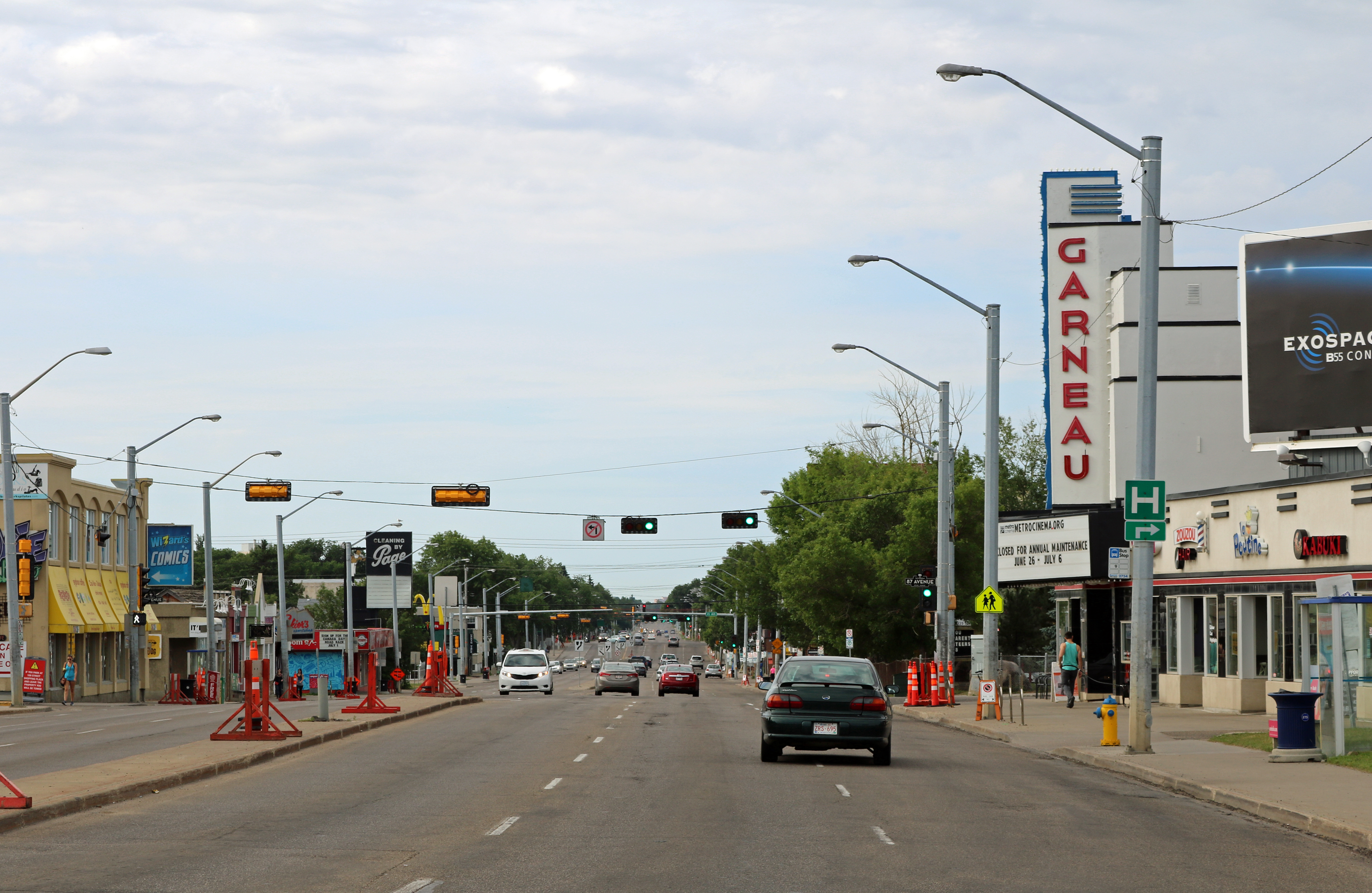 A view to the south along 109 Street NW in Edmonton's Garneau neighbourhood.